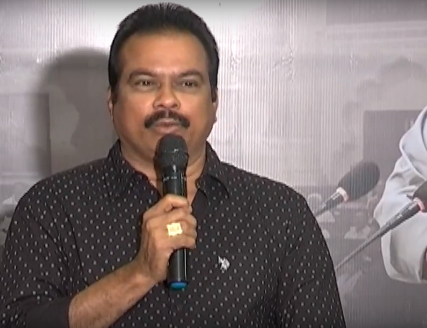 Indian film producer DVV Danayya in an interaction with the press in April 2018